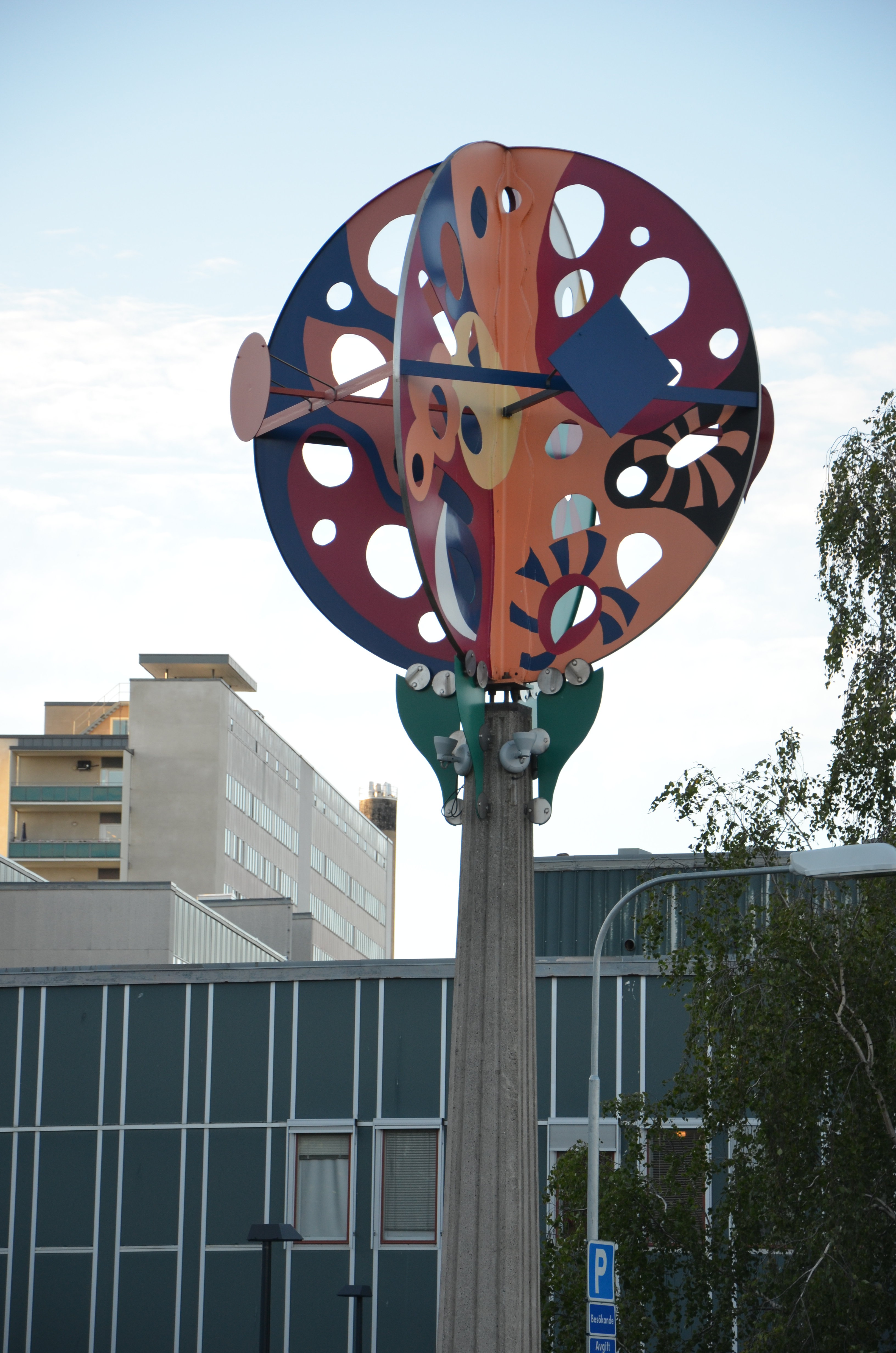 Carl Emil Berglins Blommande träd, Danderyds sjukhus, Danderyd